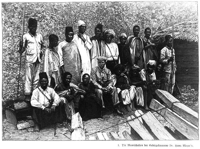 Expeditieleden Hans Meyers beklimming van de Kilimanjaro